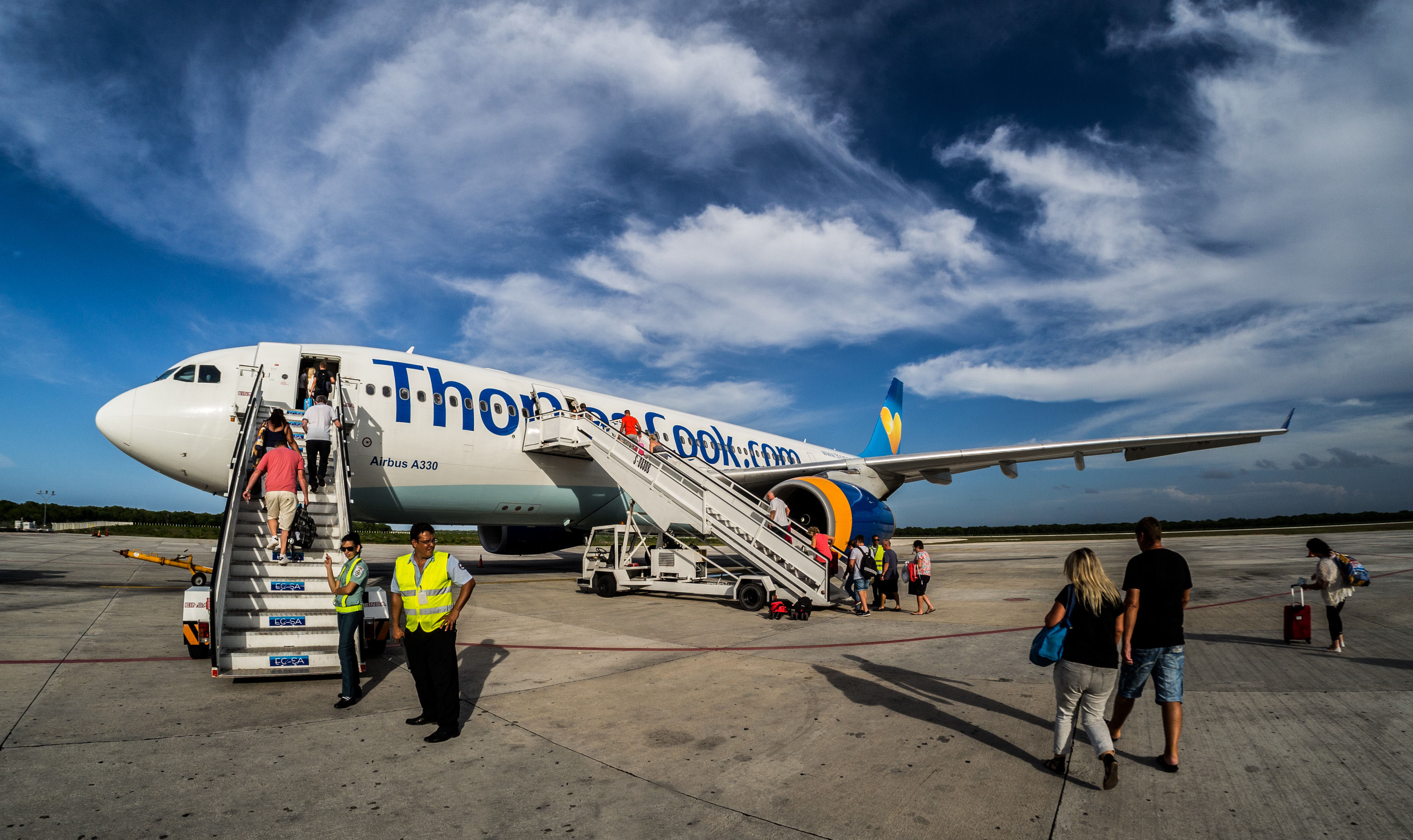 Thomas Cook Airlines Airbus A330-200 registered G-CHTZ at Jardines del Rey Airport, Cayo Coco, Cuba